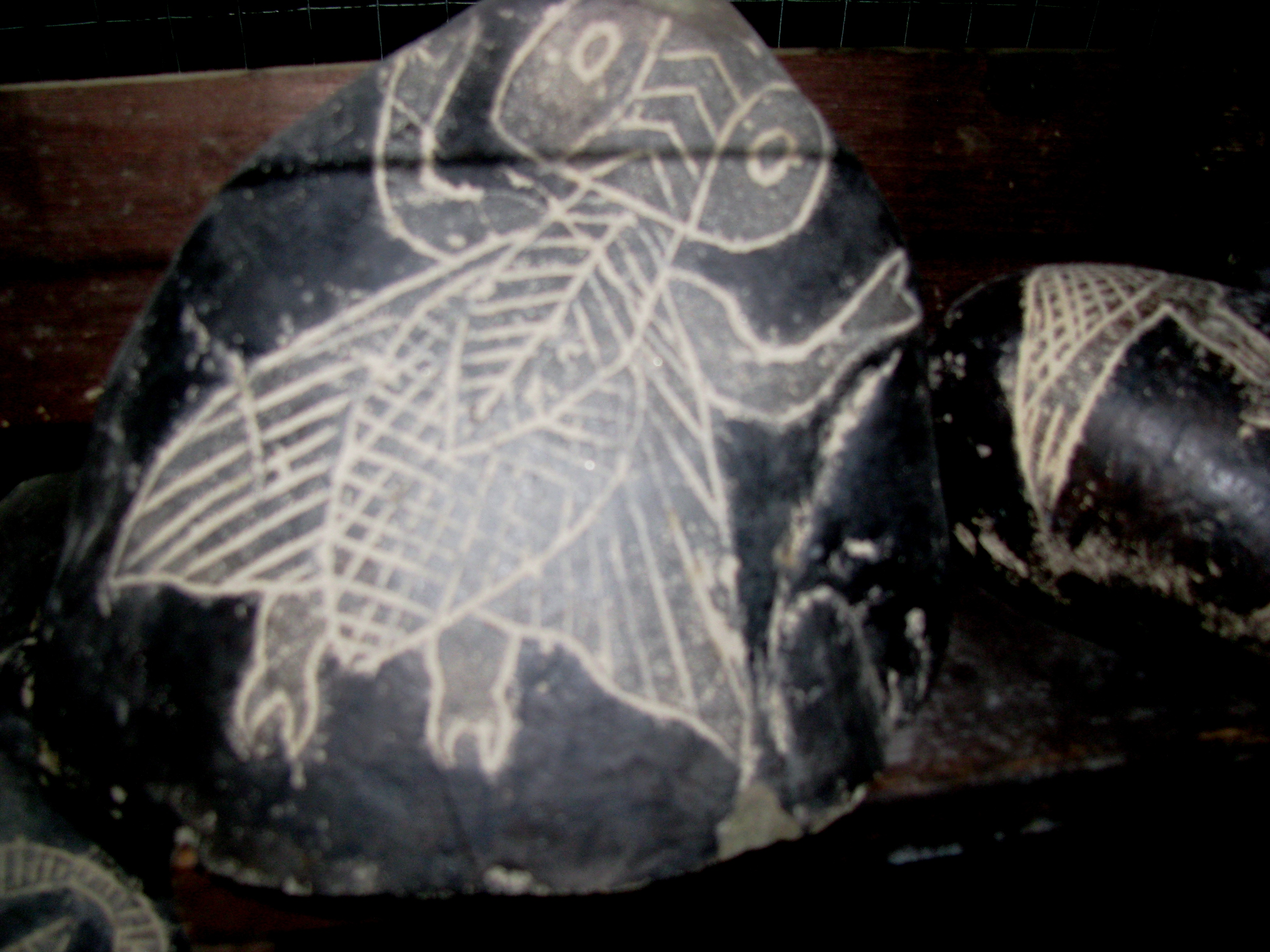 Ica stones